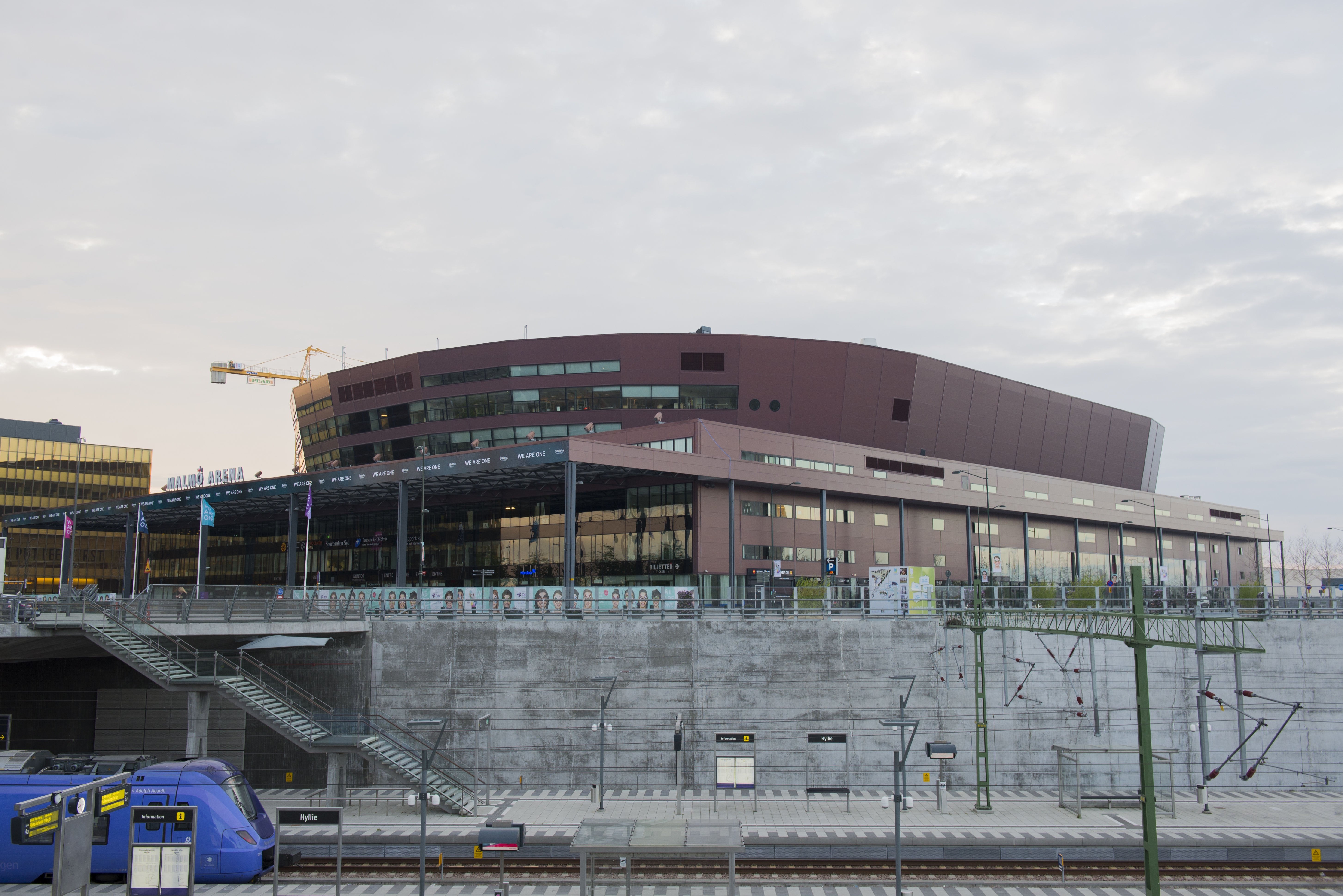 Malmö Arena in Malmö, Sweden. The photo was taken during the the Eurovision Song Contest 2013 week.